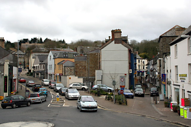 Turf Street and Honey Street Turf street is the one on the left with all the cars and Honey Street is the narrow pedestrianised street on the right - which also has cars. The photograph was taken from the steps in front of St Petroc's church.